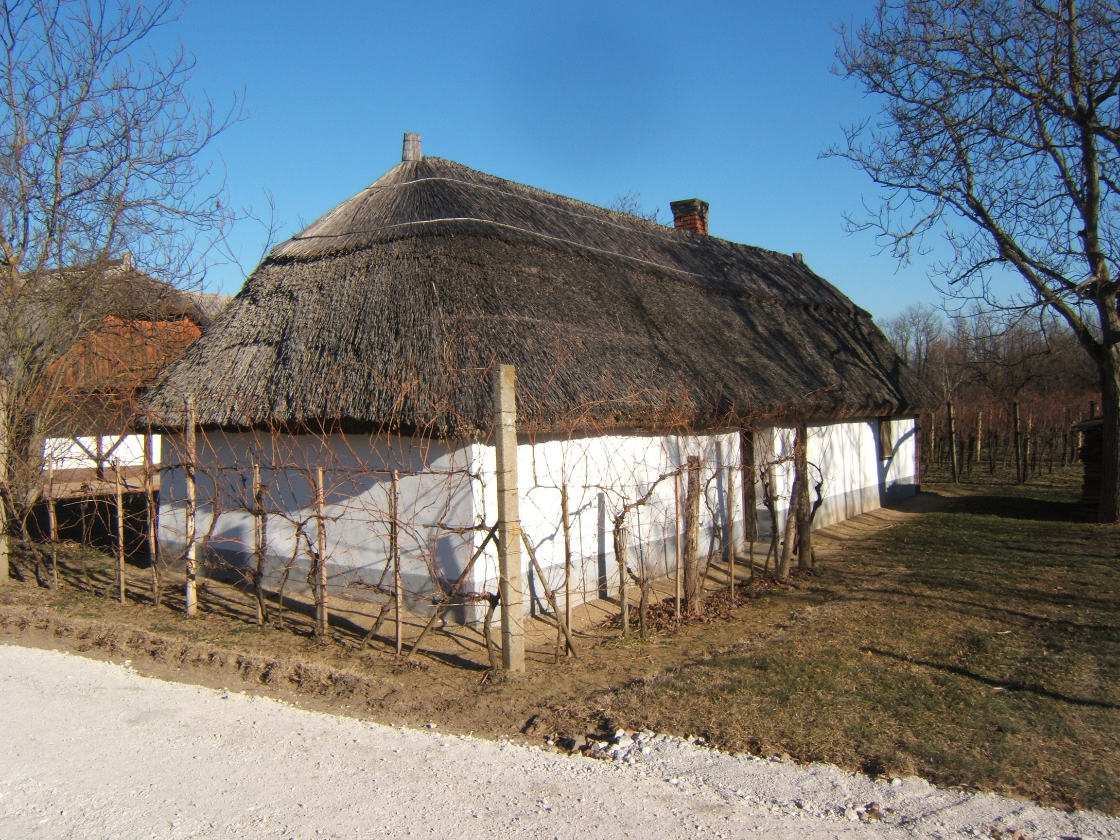 Buzsák, monumental press house on János Hill